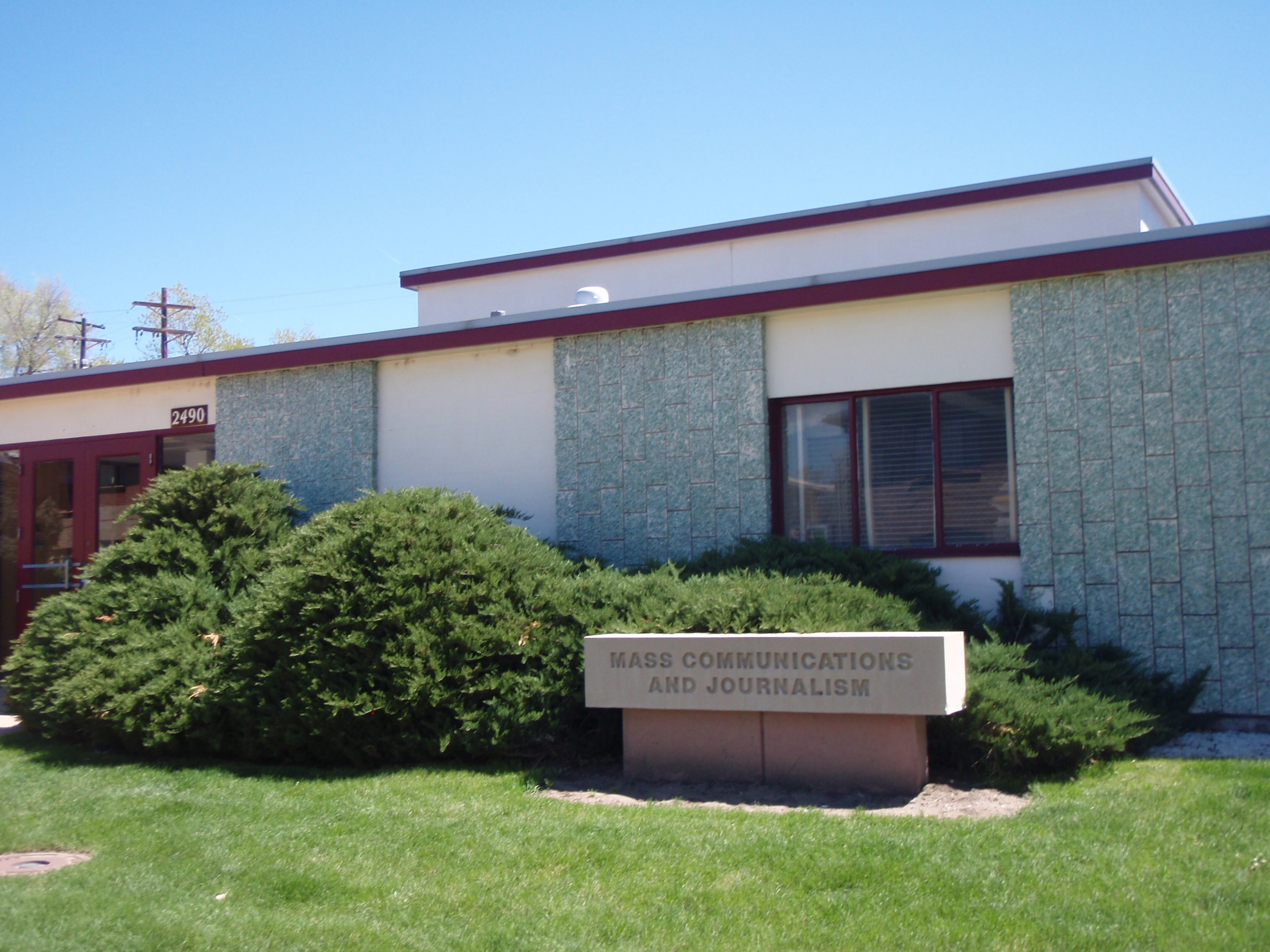 The Mass Communications Building at the University of Denver.